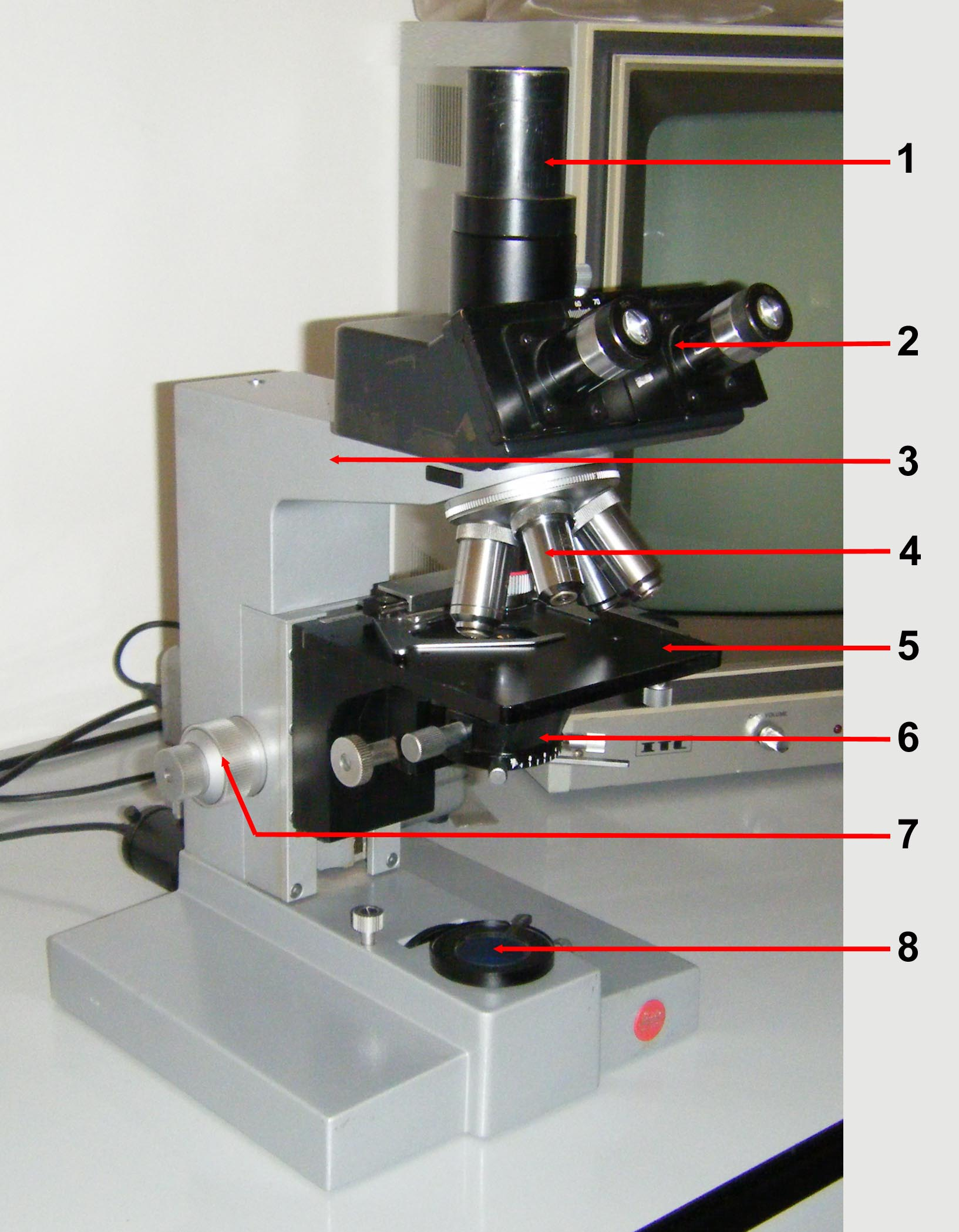 Mycroscope1